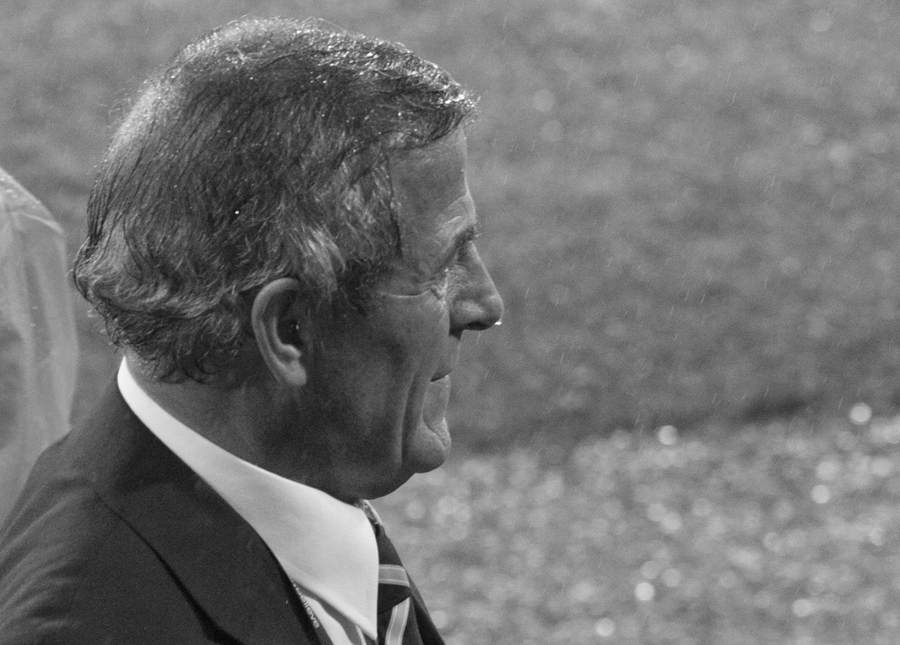 Óscar Tabárez, Uruguayan football coach